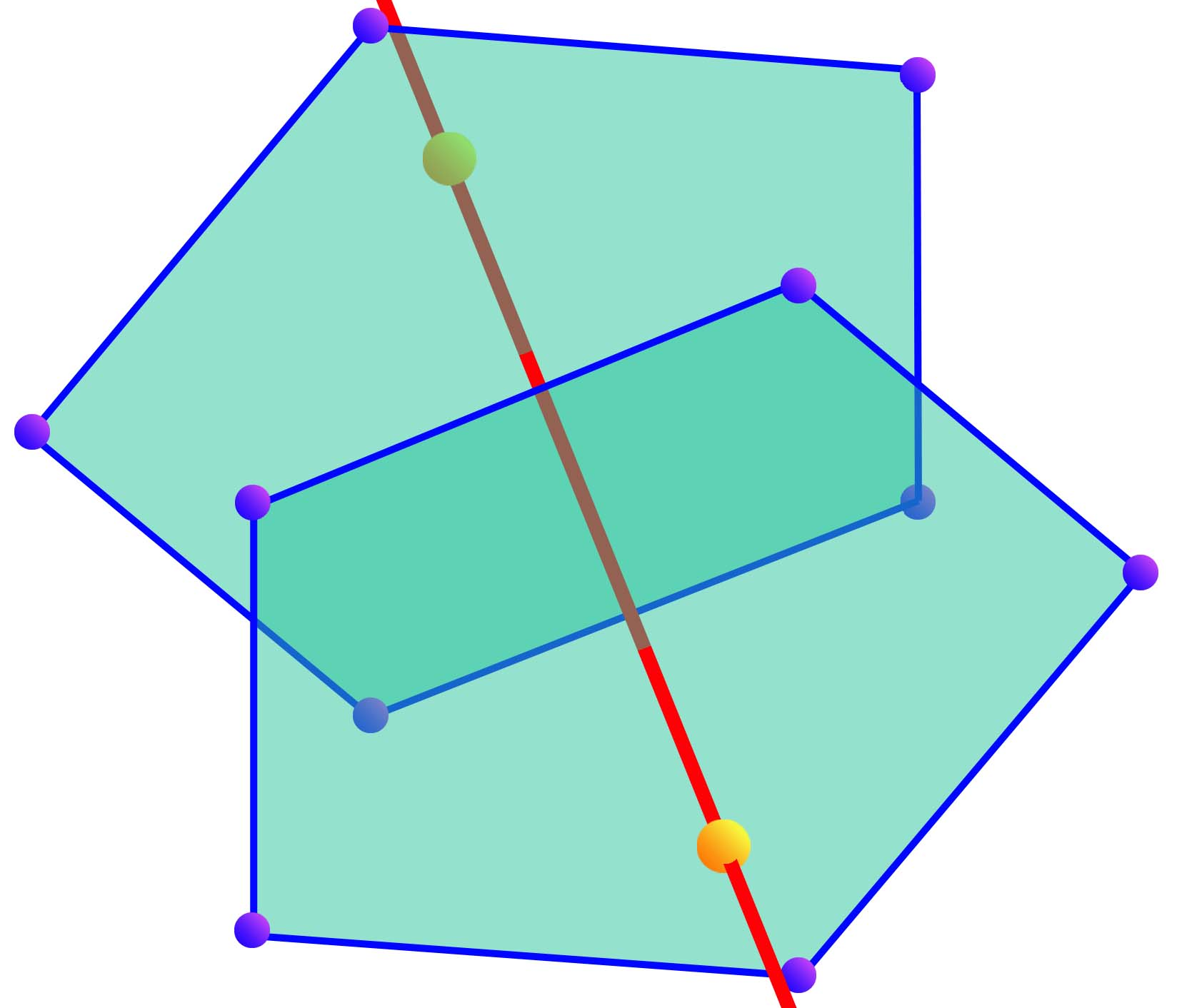 Rotations of order 5 in an icosahedron